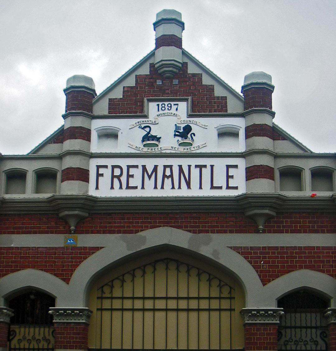 Fremantle Markets, Western Australia, 2005 - taken by myself with a Pentax Optio WP.